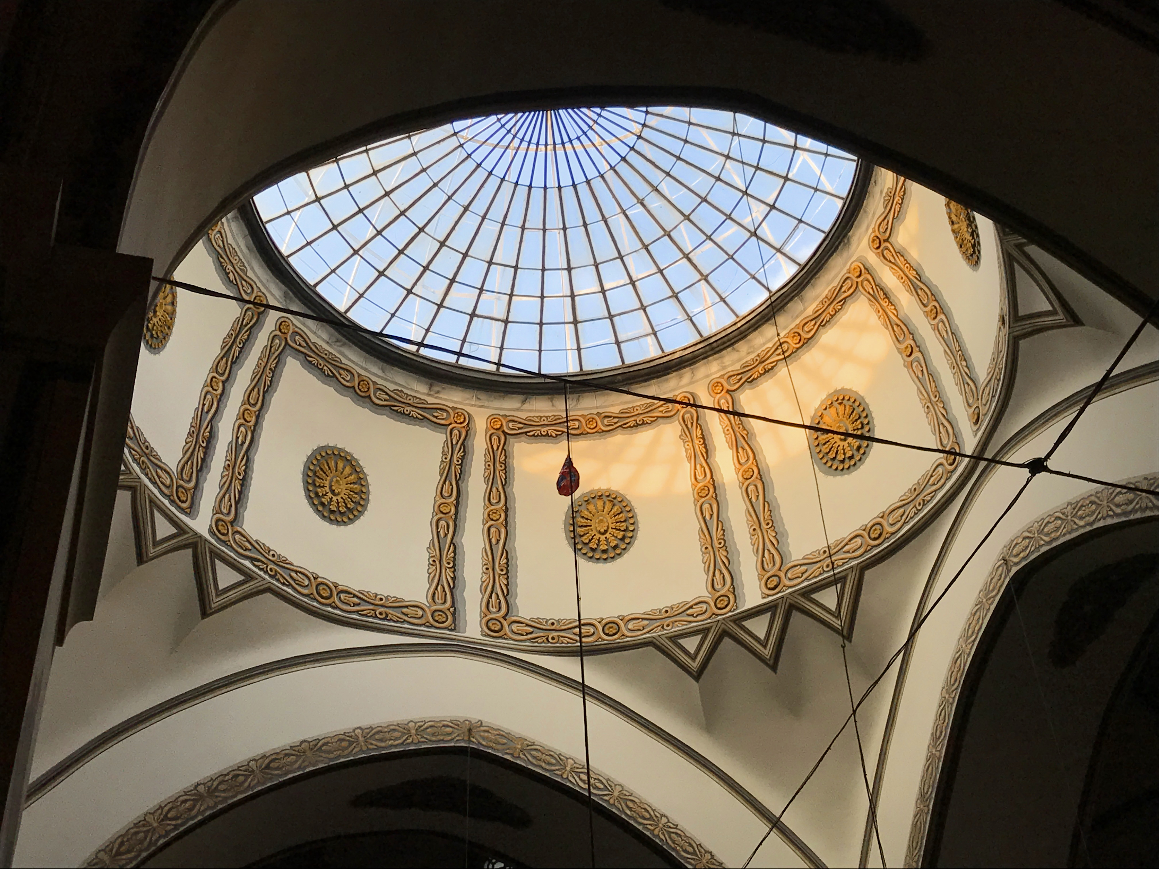 Fountain's Glass Dome inside "Ulu Cami" (Grand Mosque of Bursa), Bursa, Turkey. Ulu Cami is built in the Seljuk style, it was ordered by the Ottoman Sultan Bayezid I and built between 1396 and 1399. The mosque has 20 domes and 2 minarets. This is the only Glassed Dome on top of the Ablution fountain.